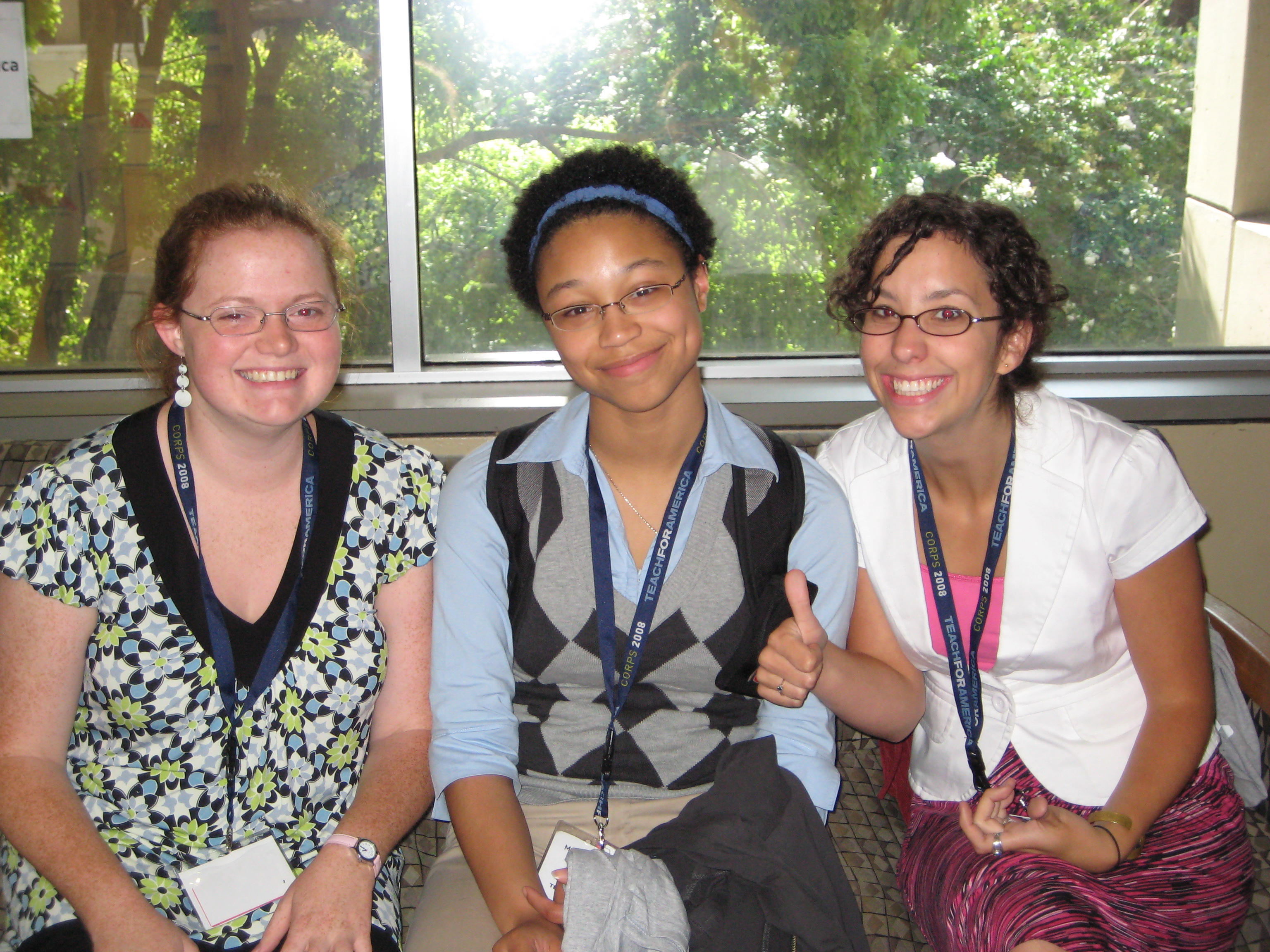 Three TFA*Mississippi Delta corps members at the 2008 Houston Institute